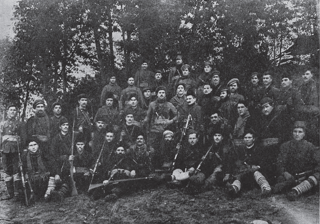 IMARO cheta ot Tacho Hadzhistoenchev